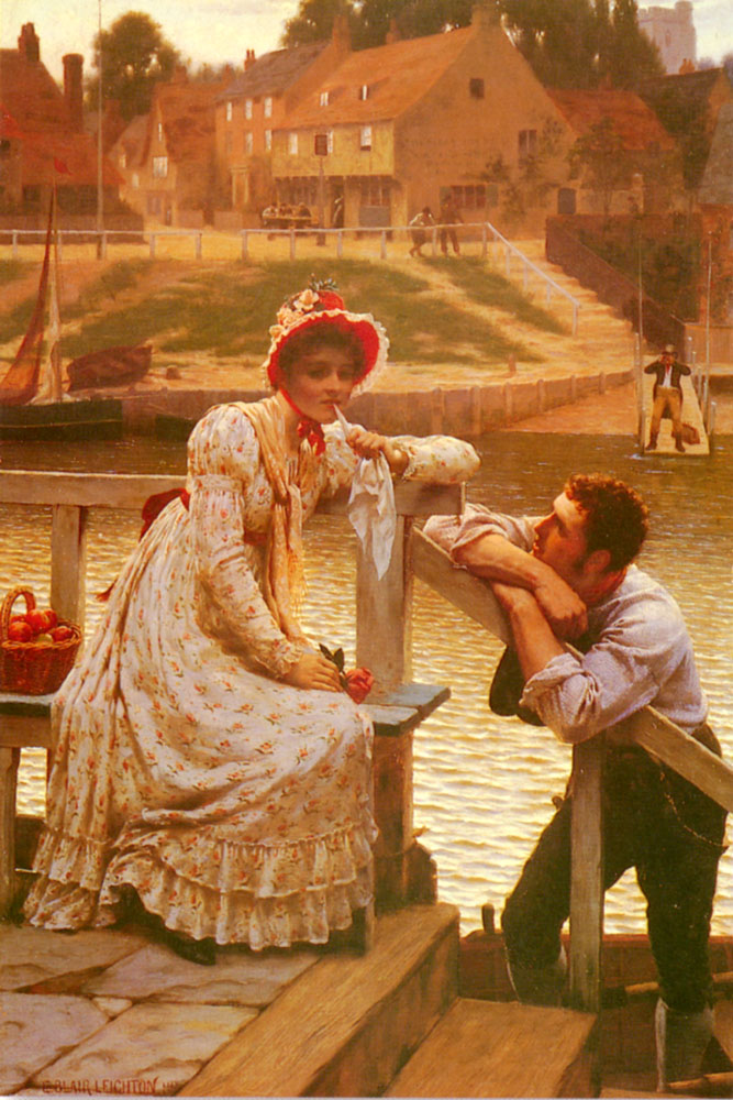 (as a humorous touch, a passenger is waiting on the other side of the river for the ferryman to finish talking to the pretty girl)